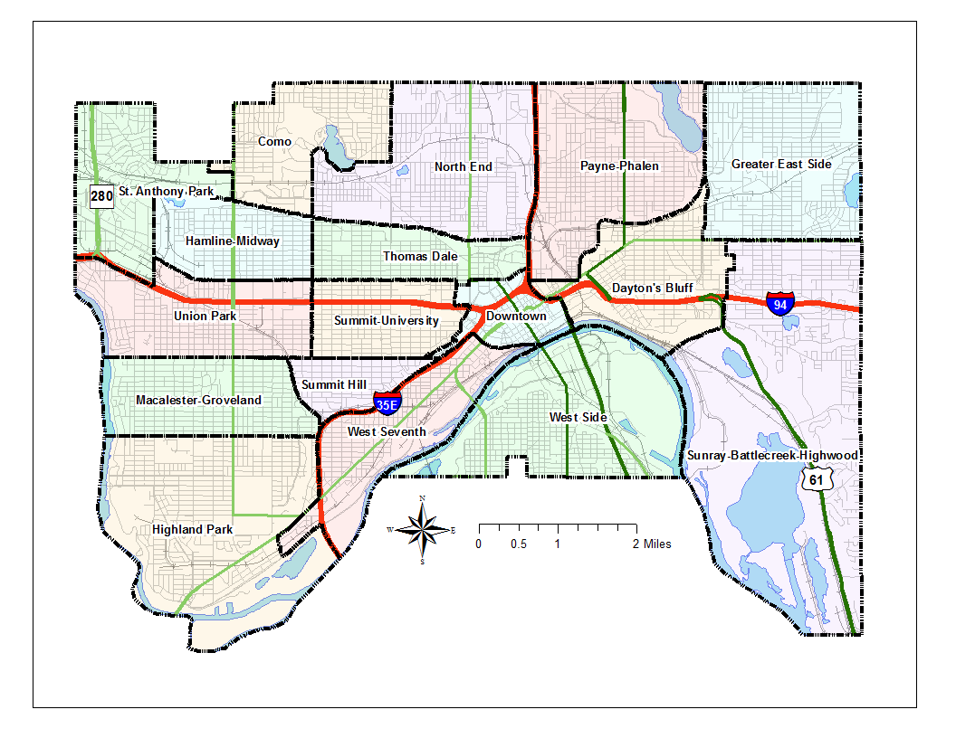 A map of neighborhoods of Saint Paul, Minnesota. Map created from publicly available TIGER files